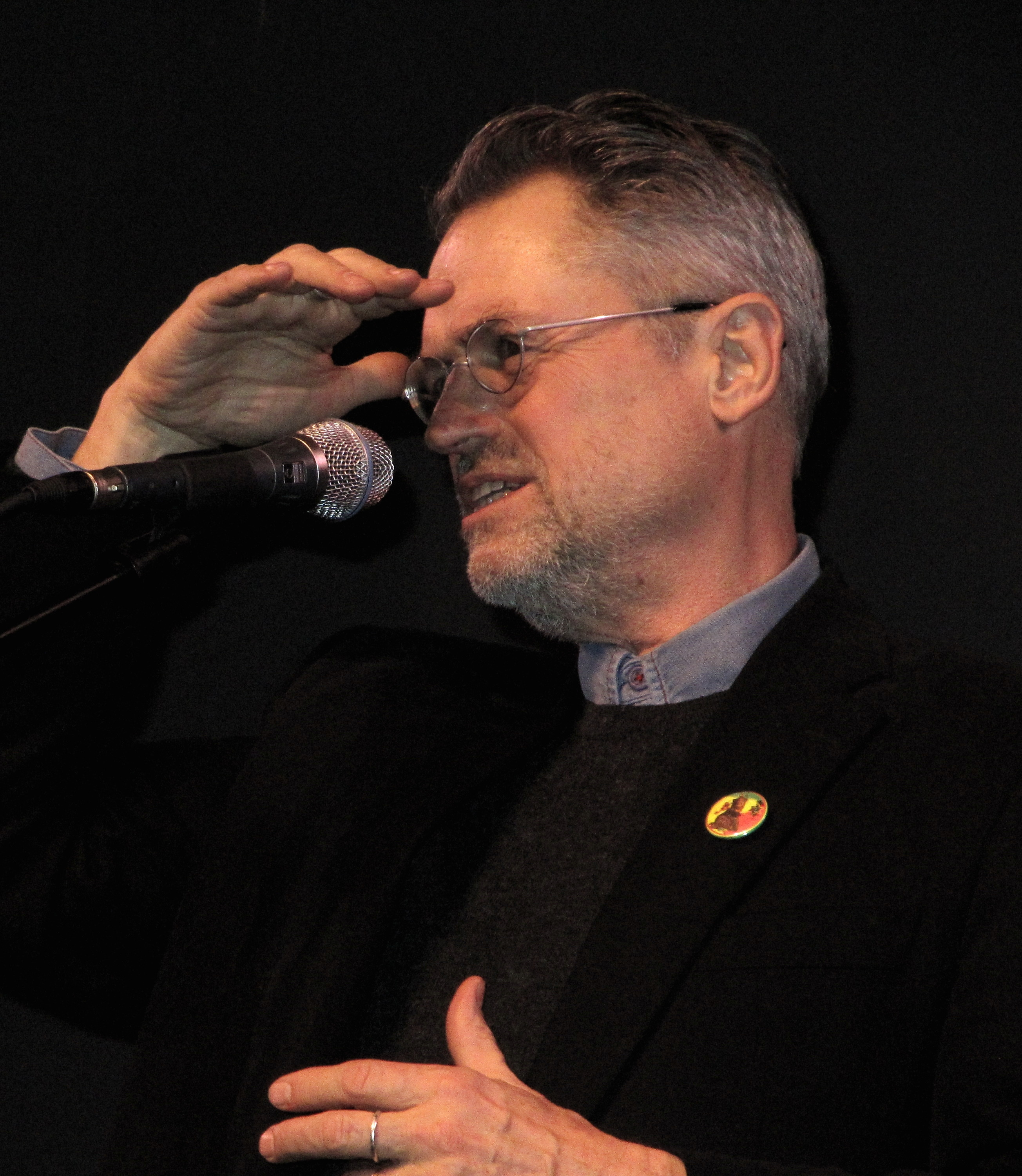 Jonathan Demme at Coolidge Corner Theatre in Brookline, Massachusetts, USA